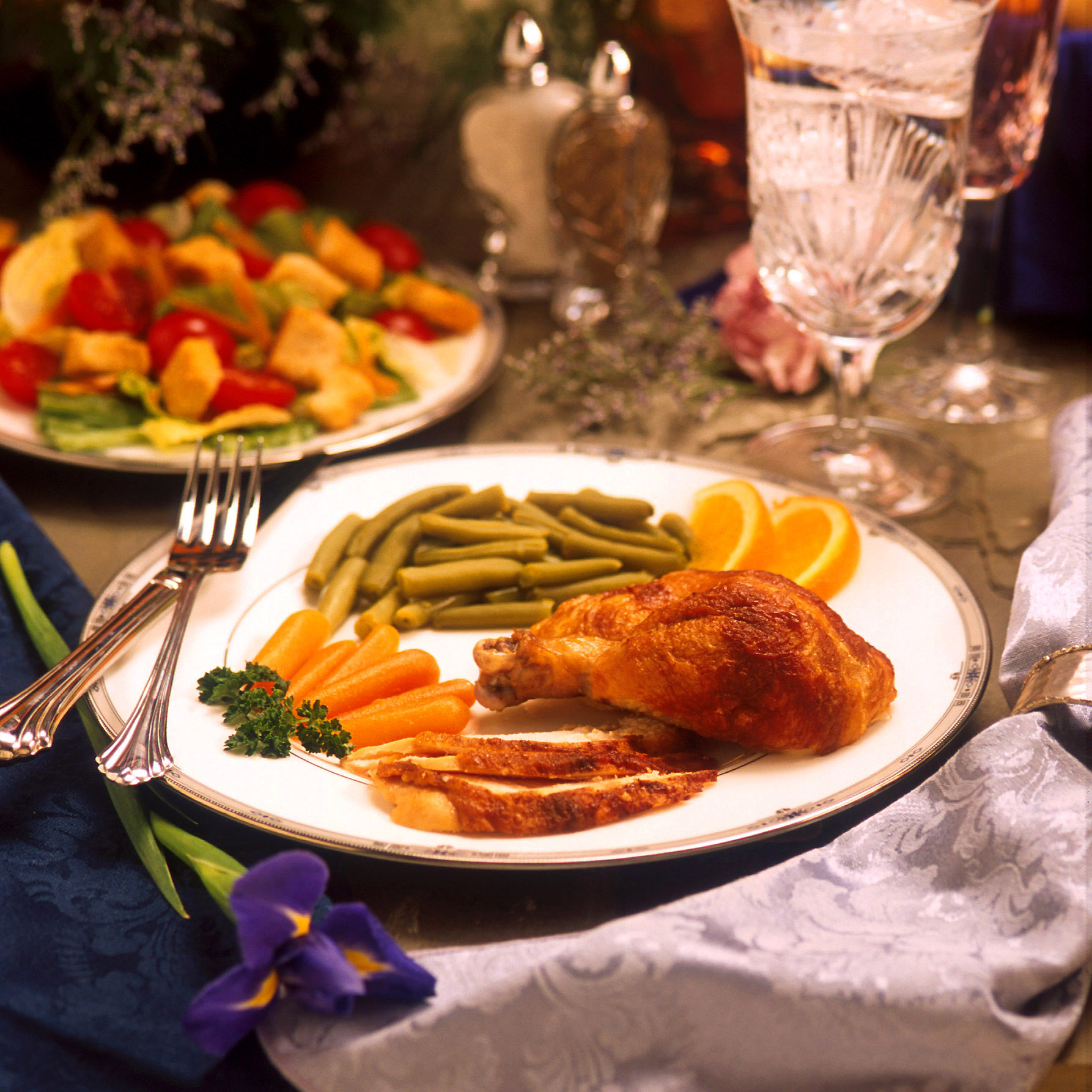 An attractive dinner setting